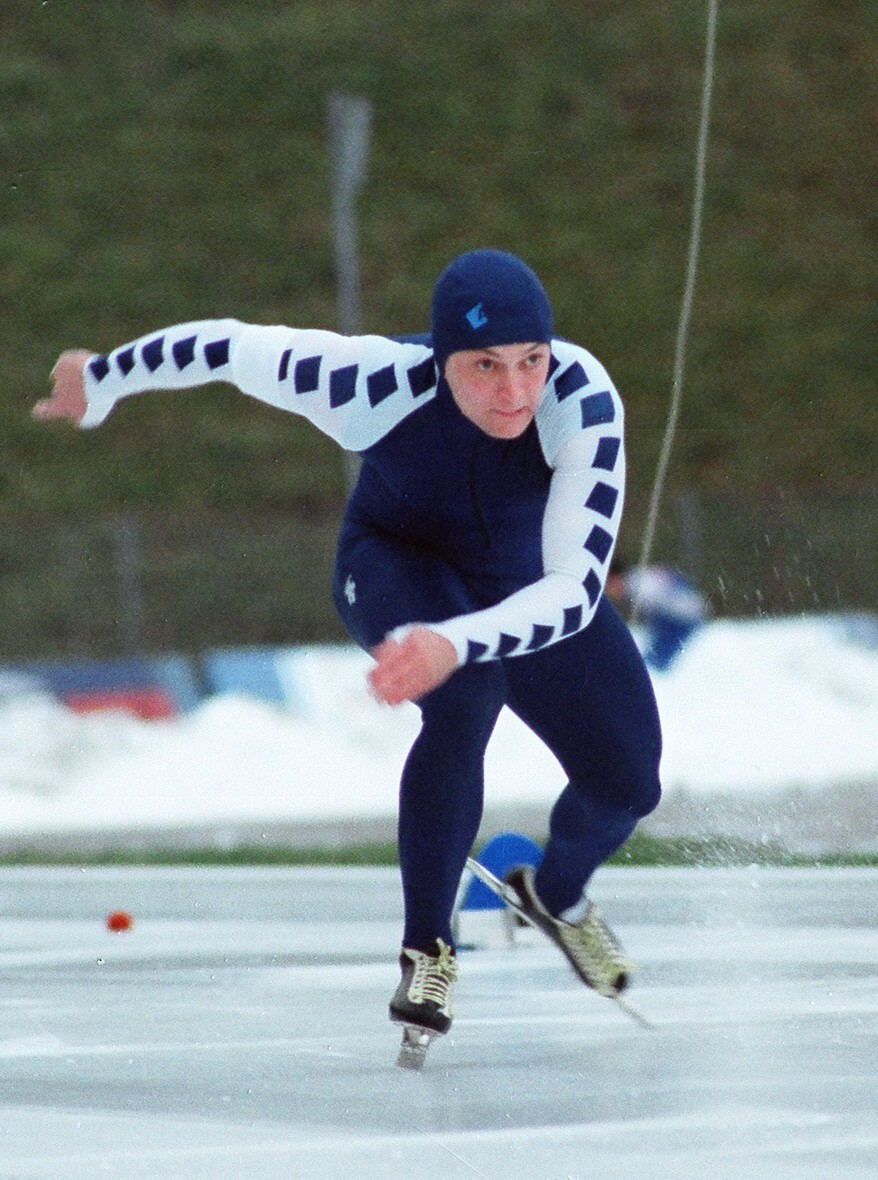 Jan Ykema is a former Dutch speedskater